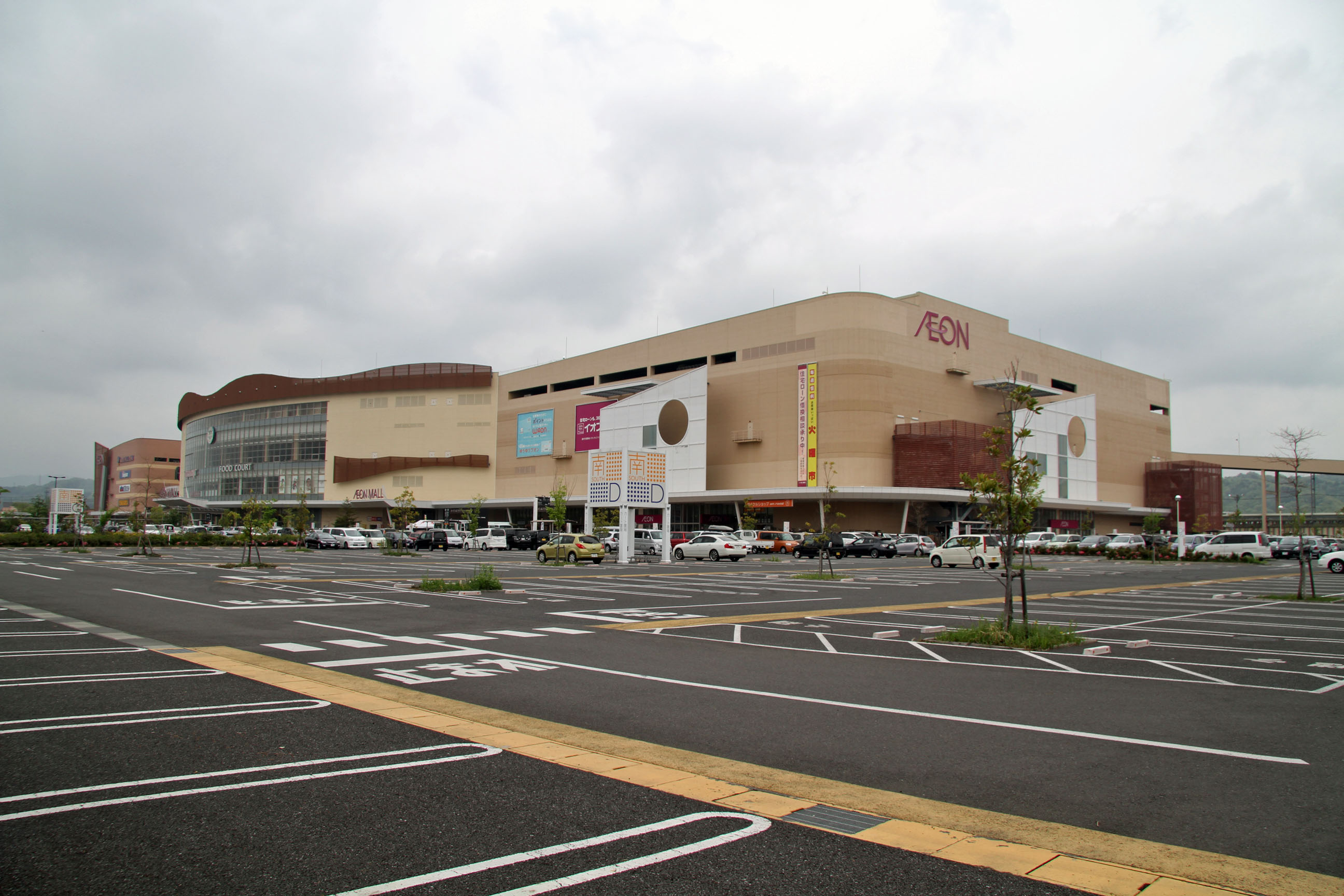 AEON Mall Hinode, Hinode, Tokyo, Japan